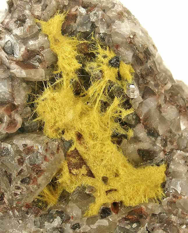 Calcite, Uranophane - alpha Locality: Jackpile Mine (Jackpile-Paguate), Laguna District, Cibola County, New Mexico, USA (Locality at ) Size: small cabinet, 6.1 x 5.4 x 2.6 cm Uranophane on Calcite A rare example of beautifully crystallized, acicular uranophane from New Mexico. At first glance, this looks like the Canadian material. However, it is from a small and hard to get locality. Ex. John White Collection.